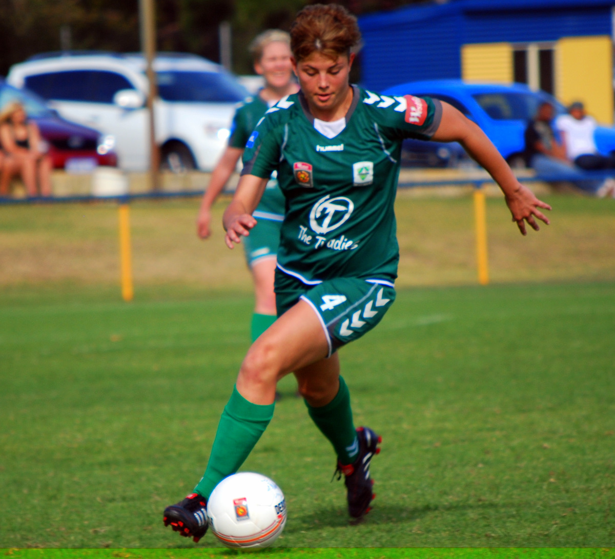 Michelle Heyman in action for Canberra United in the W-League